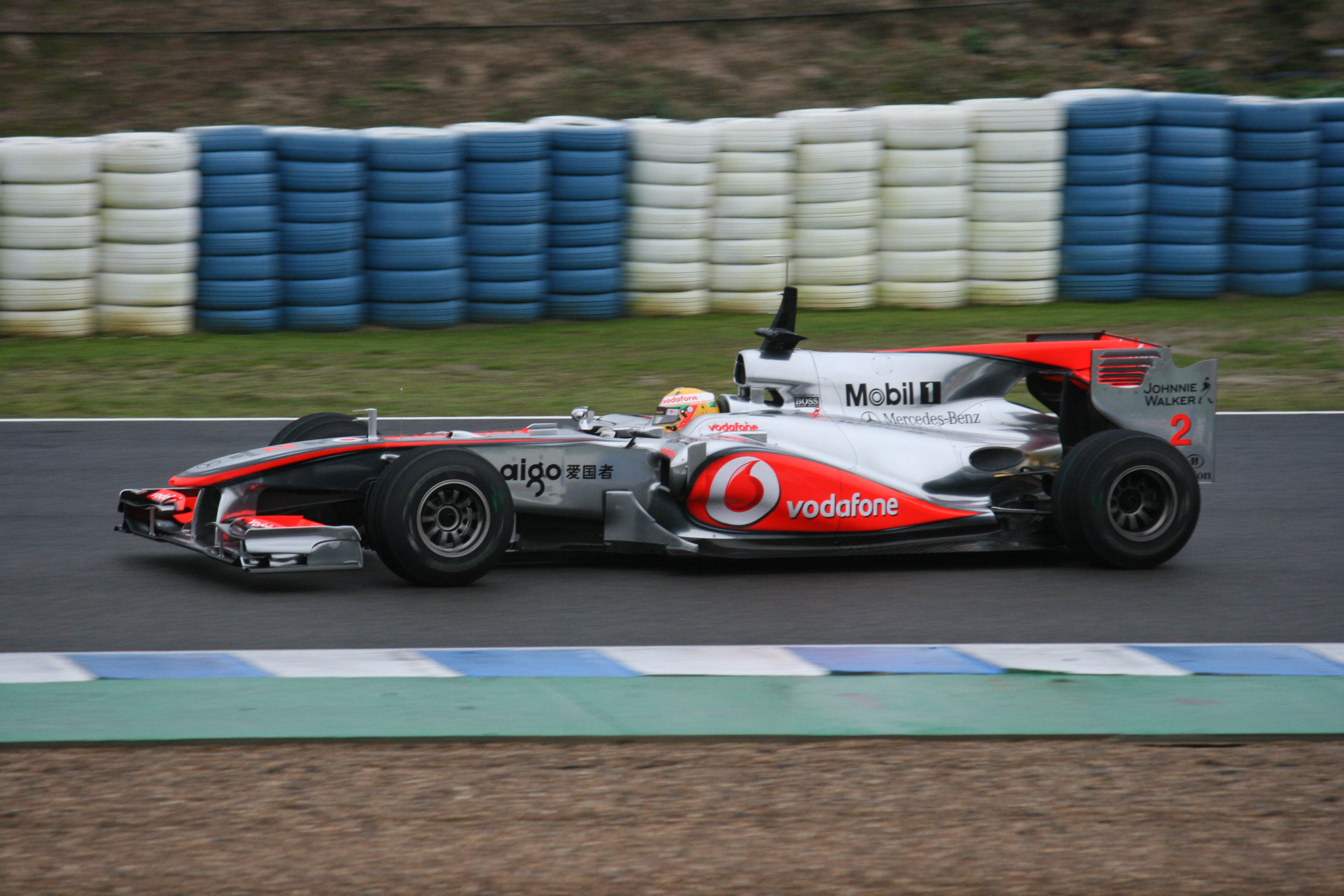 Lewis Hamilton testing for McLaren at Jerez, 12/02/2010.